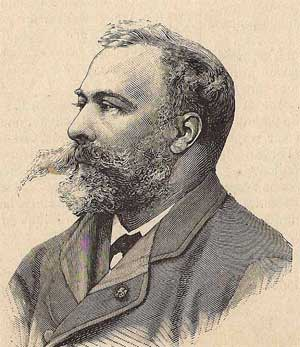 The painter Florent Willems (1823-1904)